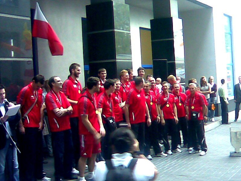 Polish volleyball players, winners of 2009 Men's European Volleyball Championship.